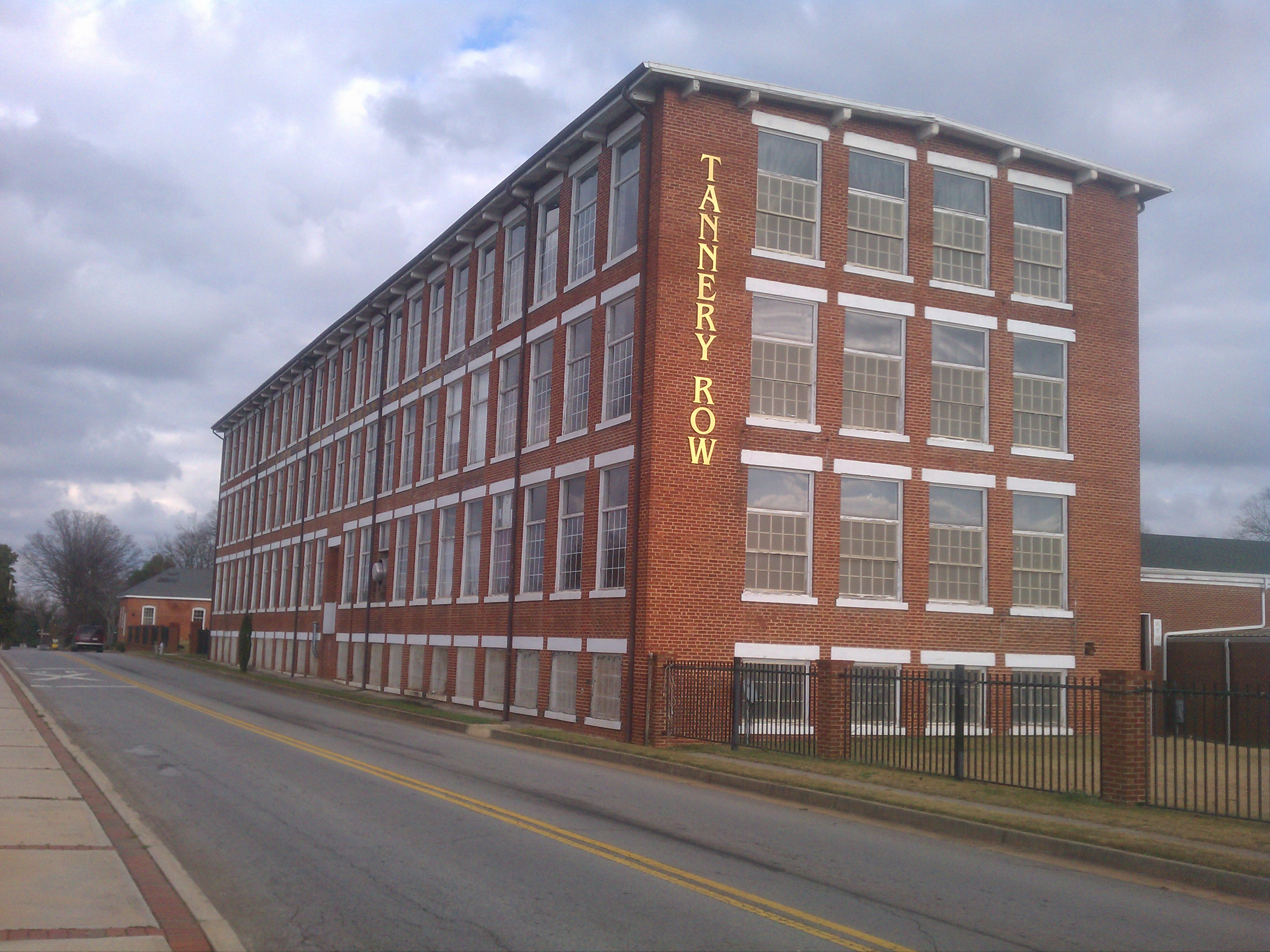 Historic Tannery Row building in downtown Buford, GeorgiaBona Allen Shoe and Horse Collar Factory